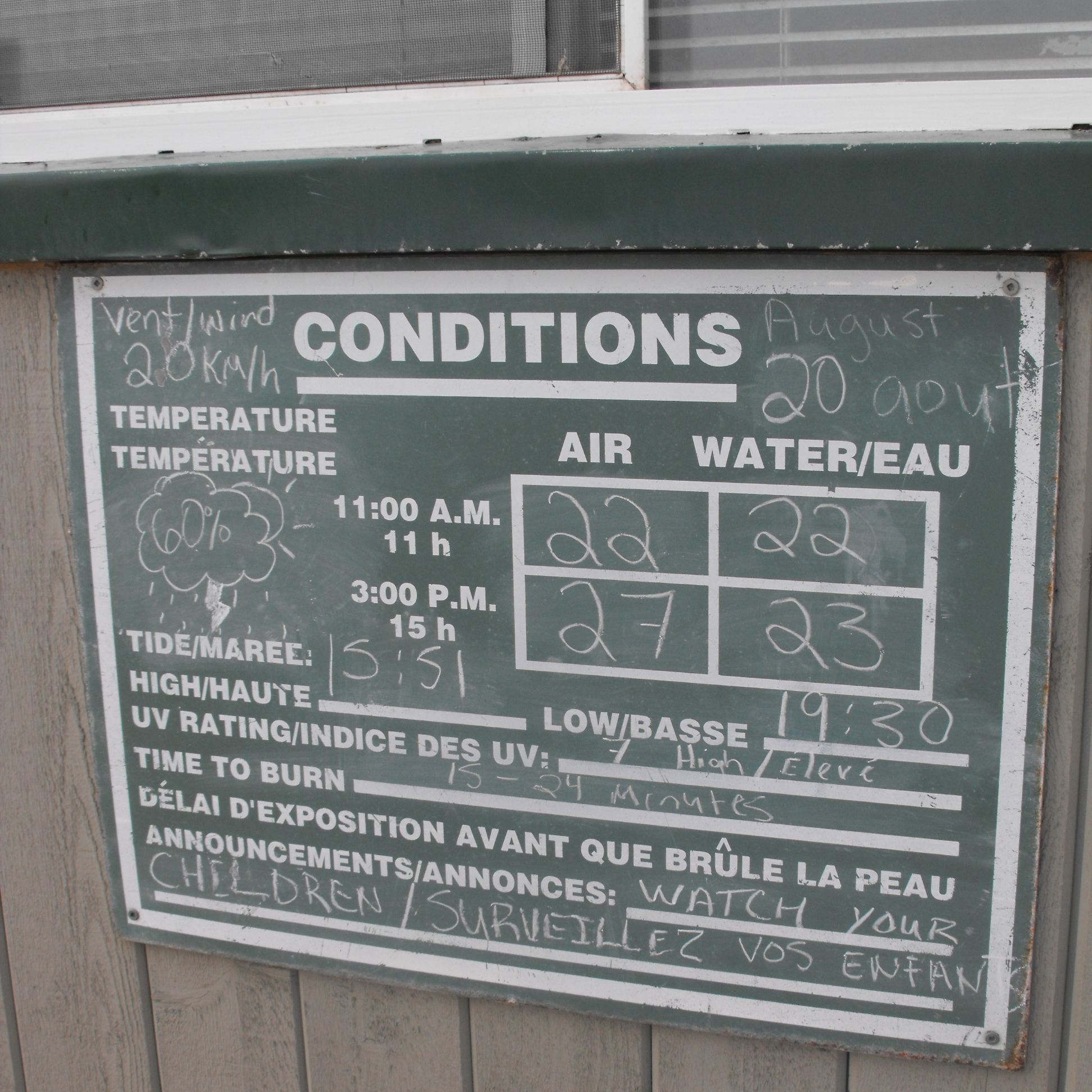 Signboard on lifeguard shack showing water temperatures (Celsius), Parlee Beach Provincial Park, Shediac, Westmorland County, NB Canada